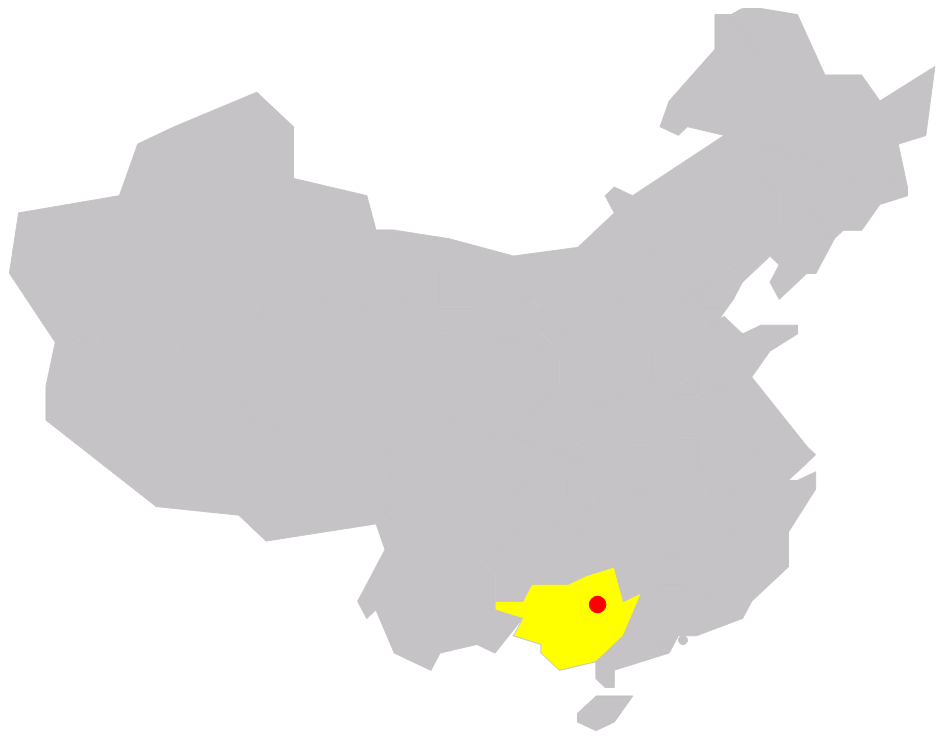 Description: position of Yangshuo in China Source: own work Date: December 2005 Author: --Immanuel Giel 12:32, 15 December 2005 (UTC) Other versions: none Yangshuo Yangshuo Yangshuo